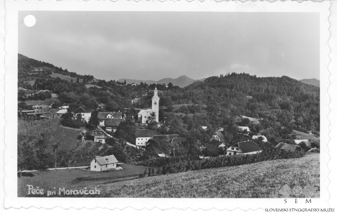 Postcard of Peče